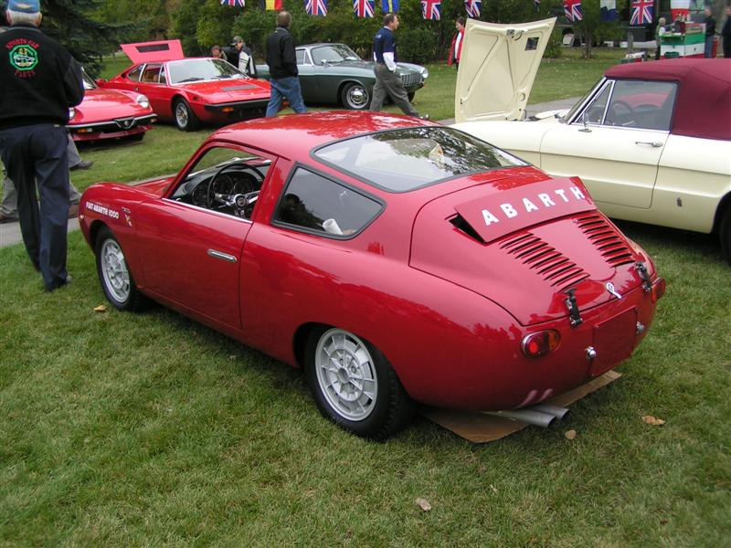 Fiat Abarth